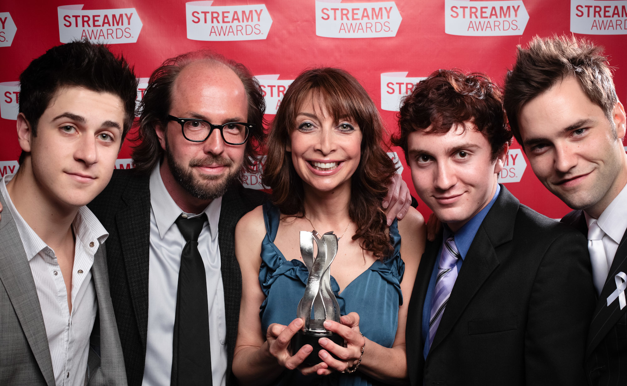 Thanks for viewing the official Streamy Awards photos! The exclusive photos of the winners and presenters are here. You don't want to miss those! We could not have done this without our awesome team of associate photographers: Bonny Pierzina Gabriel Ryan Laura Kearse Joe Philipson Kevin Calumpit Luis Miguel Munoz-Najar Actually, without our production team we could not have done this either: Josh Allard Megan Chrisofferson Mark Bealo Scott Kearse Thanks so much everyone for your hard work, and thanks so much Streamy Awards for using us again for the official photography! Please feel free to use these photos under a Creative Commons Attribution license (which means you may use the photos as long as you attribute the photos to and provide a link back to ) You can learn more about the Sreamy Awards by visiting Also, you can learn more about these photos by visiting our website with our favorite Streamy Awards photos.